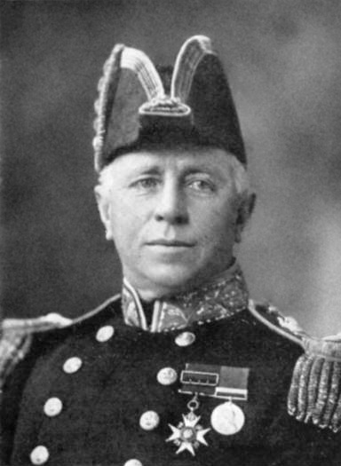 APPOINTED COMMANDER-IN-CHIEF AT THE NORE: ADMIRAL CALLAGHAN.